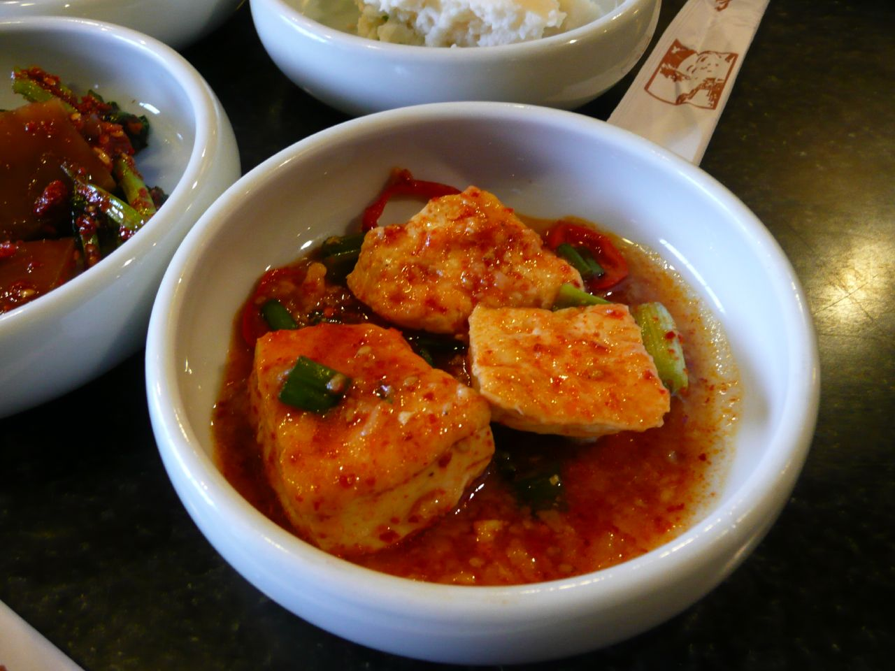 Dubu jorim, braised tofu in Korean cuisine